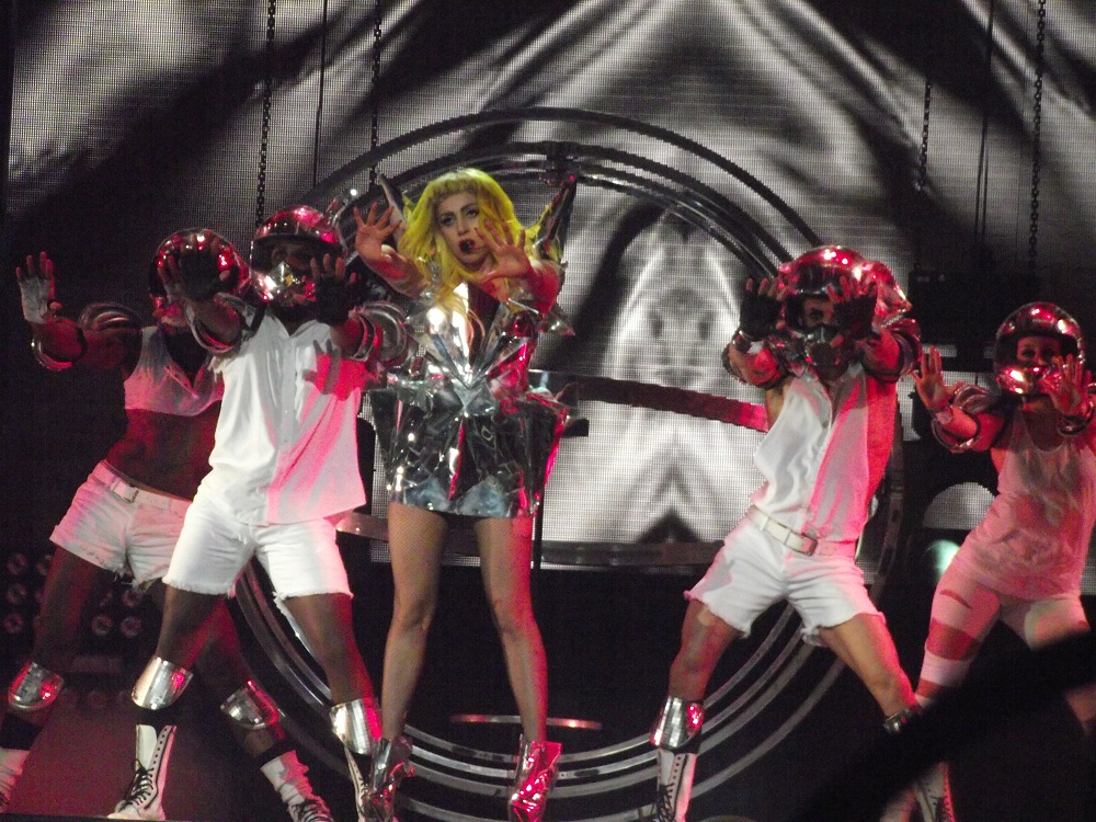 Lady Gaga performing "Bad Romance" on The Monster Ball Tour, in Dallas.